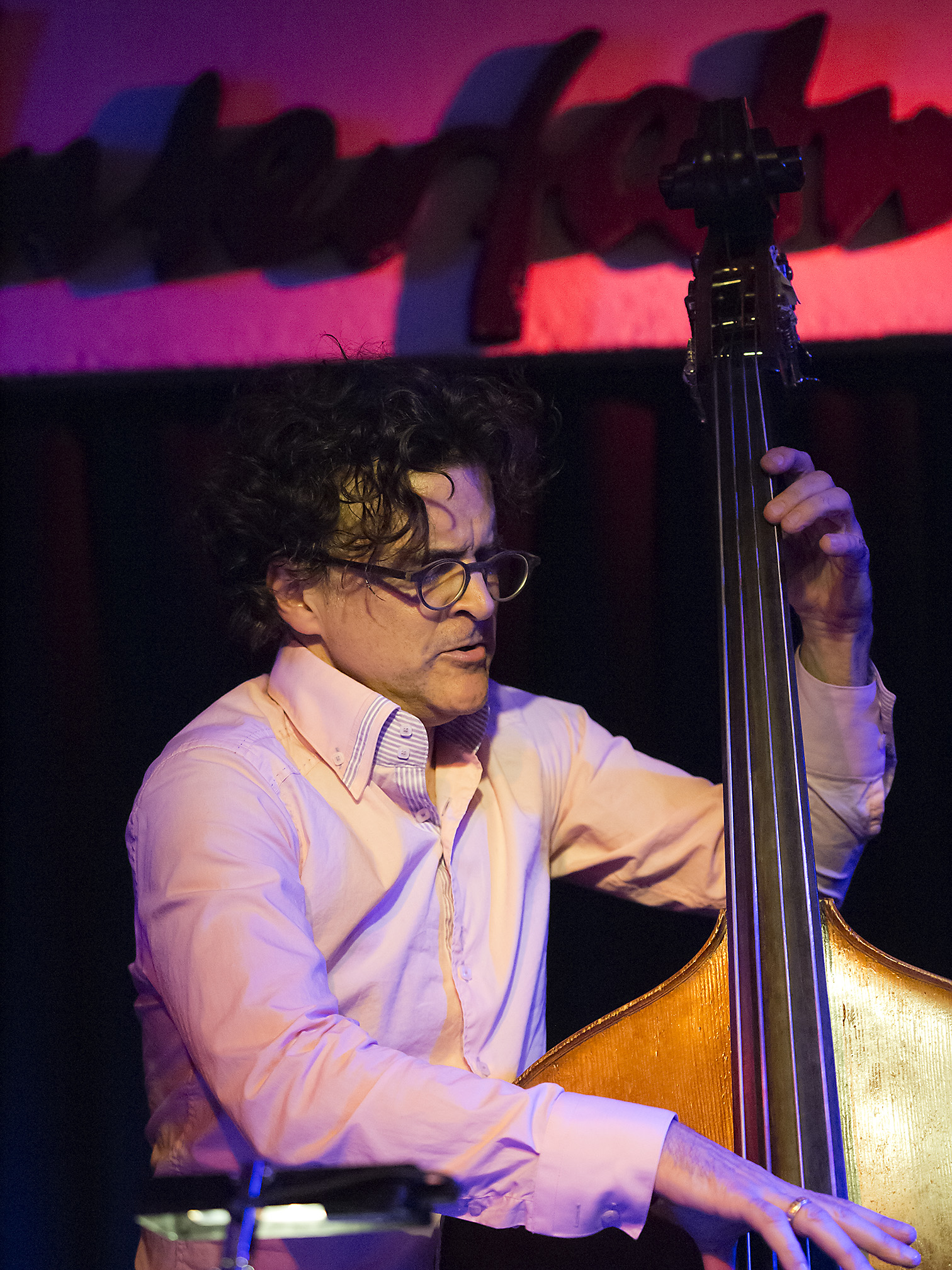 Heiri Känzig, Jazz bassist; Picture taken in Jazz Club Unterfahrt, Munich/Bavaria